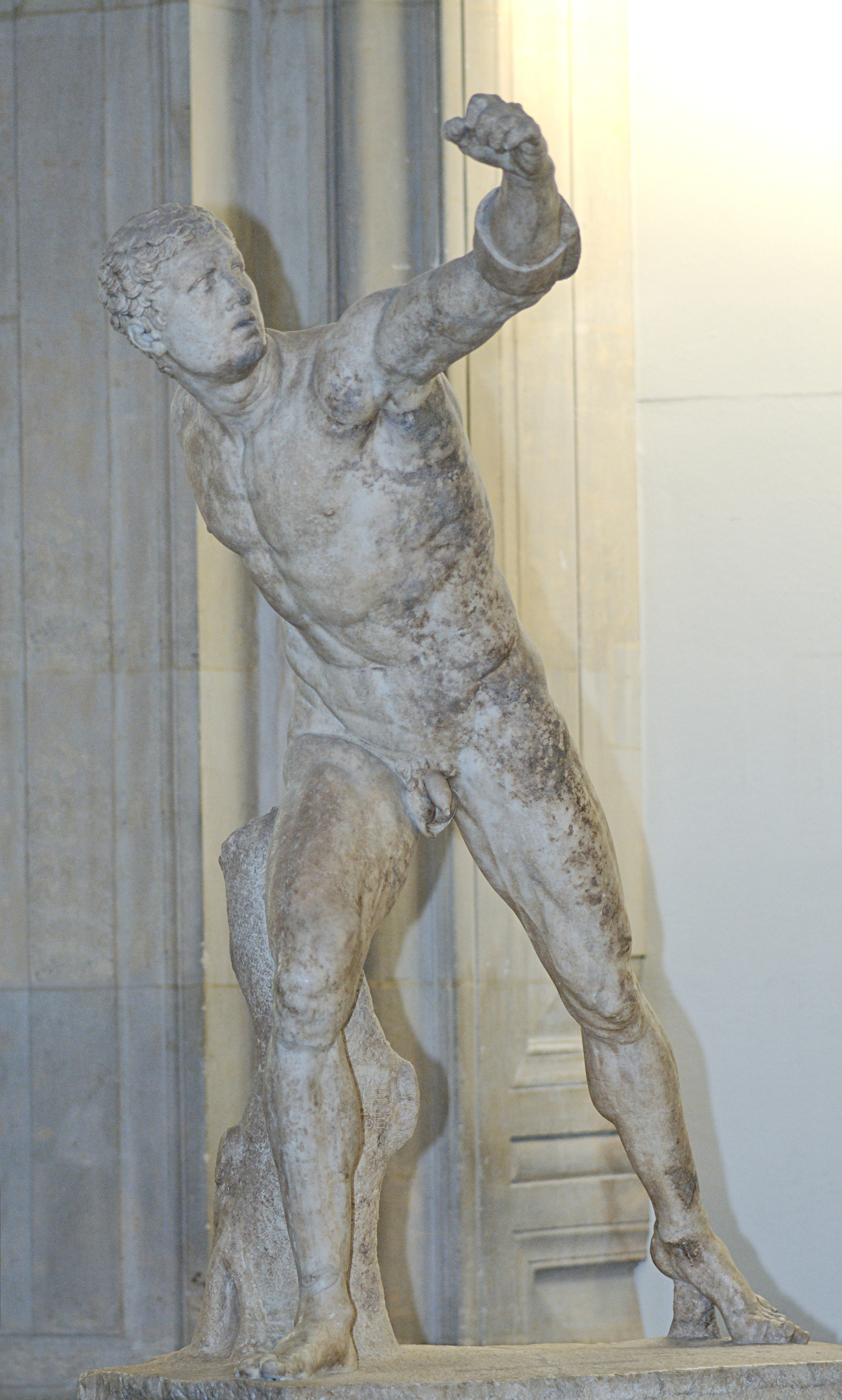 Borghese Gladiator. Pentelic marble, made in Greece or Asia Minor ca. 100 BC. Found before 1611 in Nettuno (ancient Antium), in the ruins of Nero's Villa